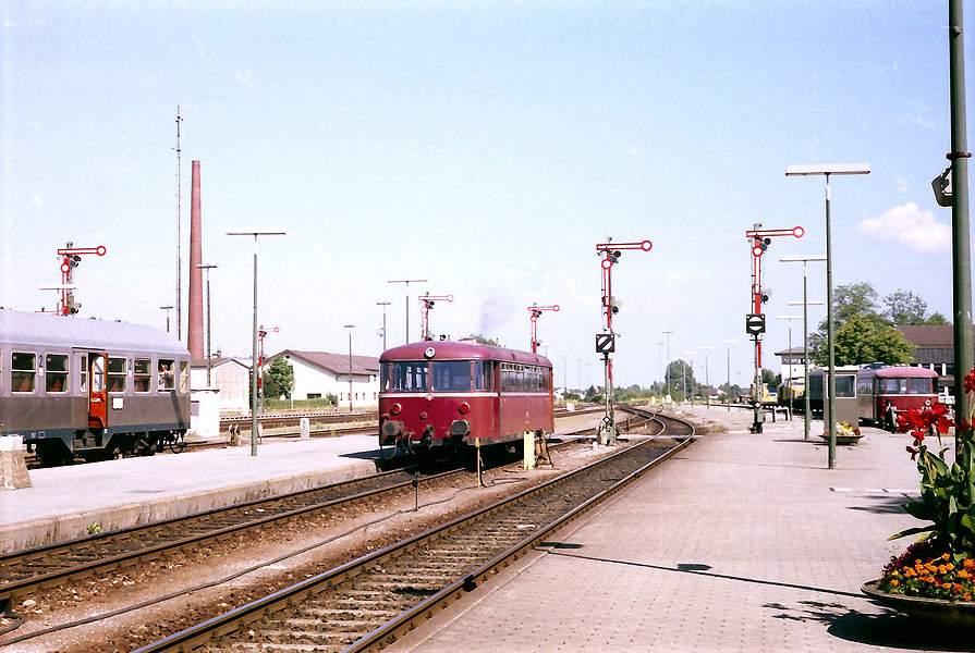 After arriving at Muehldorf station the railbus 798 538-5 goes over to the depot.